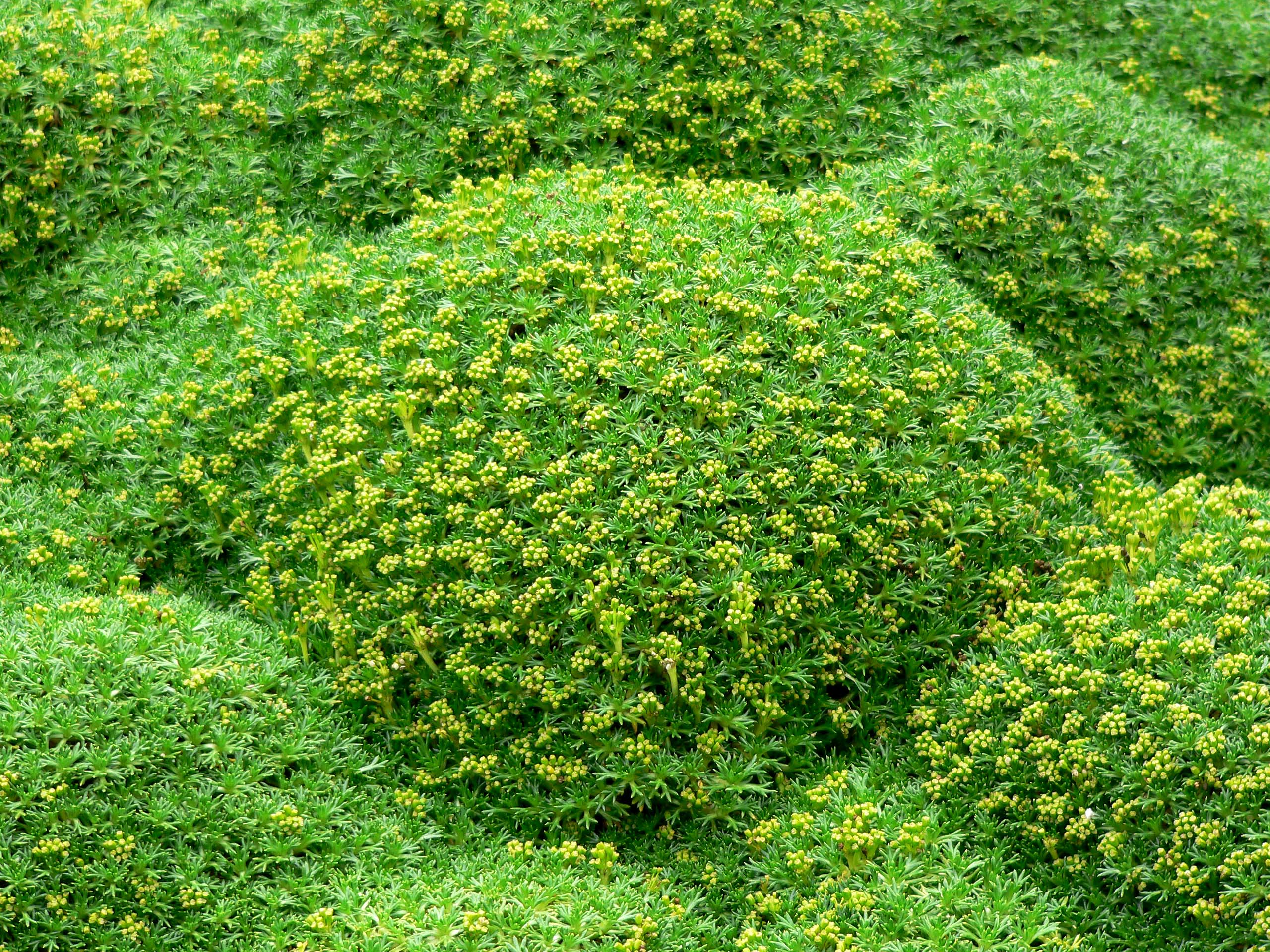 Photo of Bolax gummifera at the UBC Botanical Garden